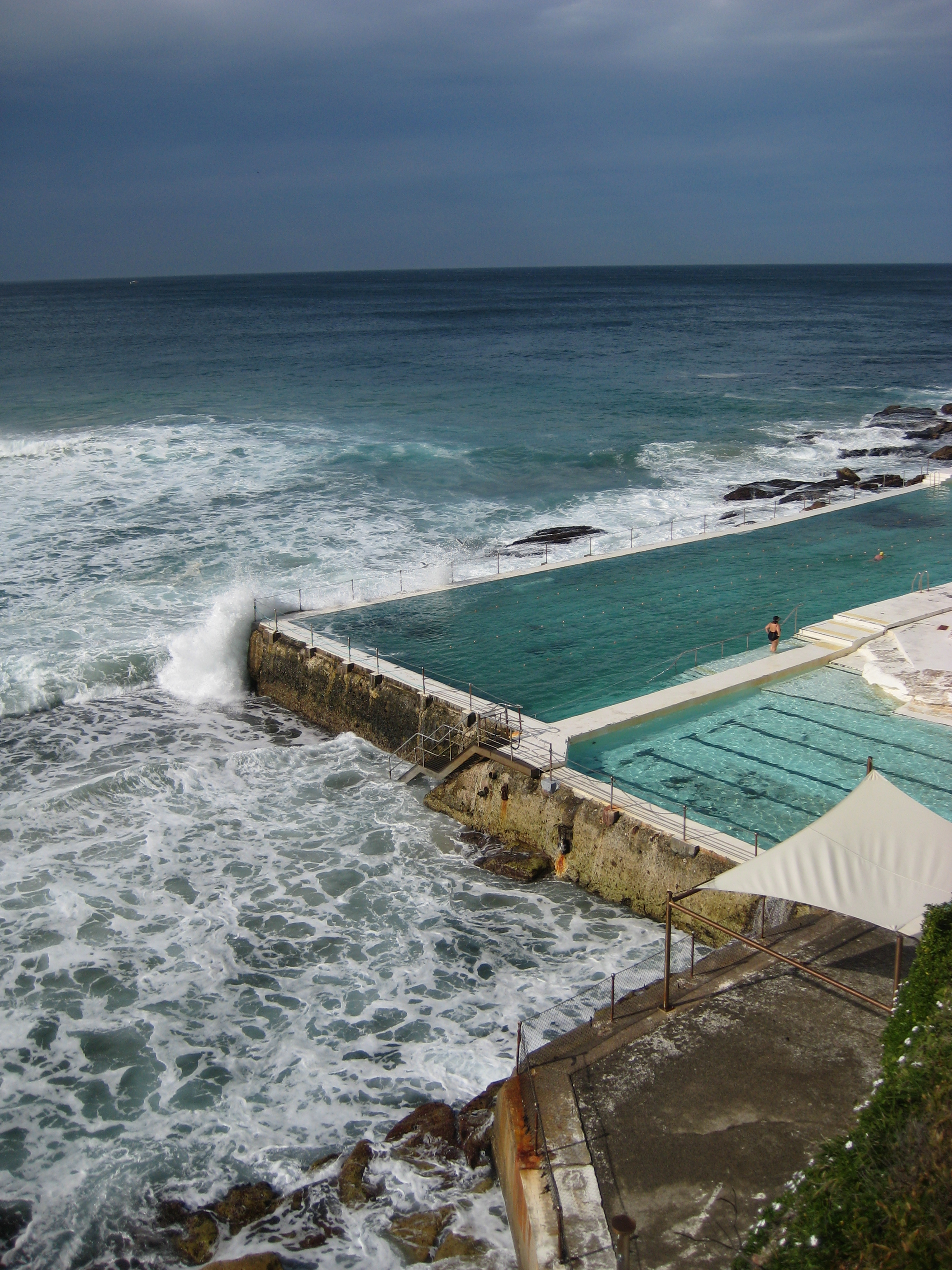 Bondi Icebergs swimming pool. Used Windows Photo Gallery to rotate image.